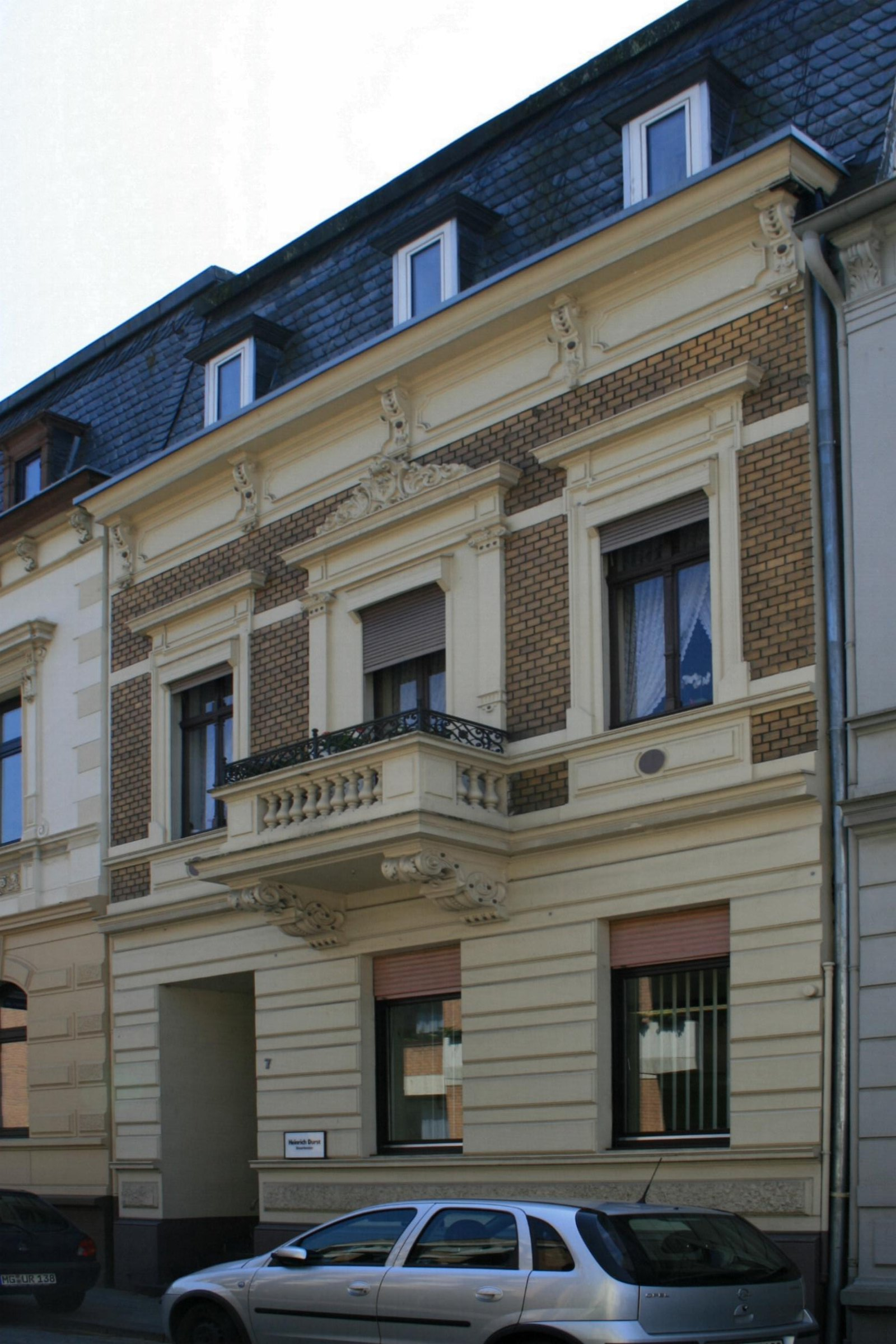 Cultural heritage monument No. W 035 in Mönchengladbach